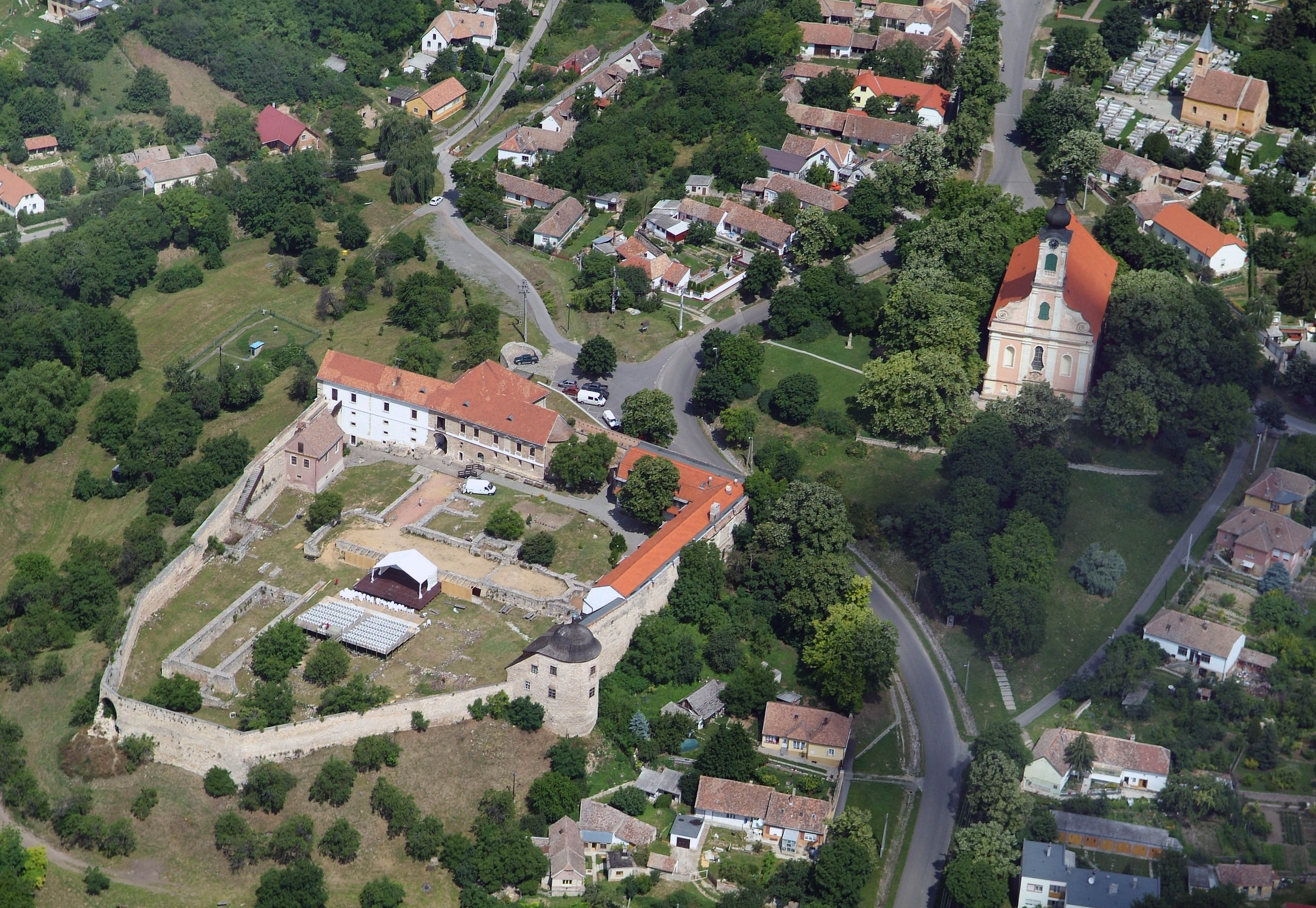 Pécsvárad, Hungary, aerial photography